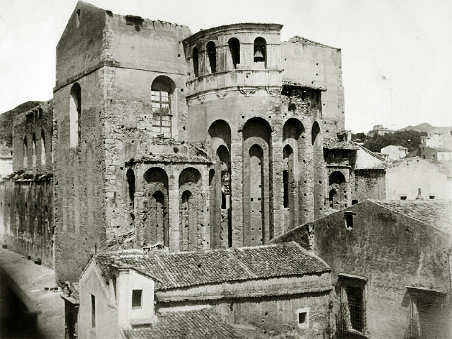 Messina, Church of St. Francis "all'Immacolata" (second half of 13th. century) after the conflagration in 1884